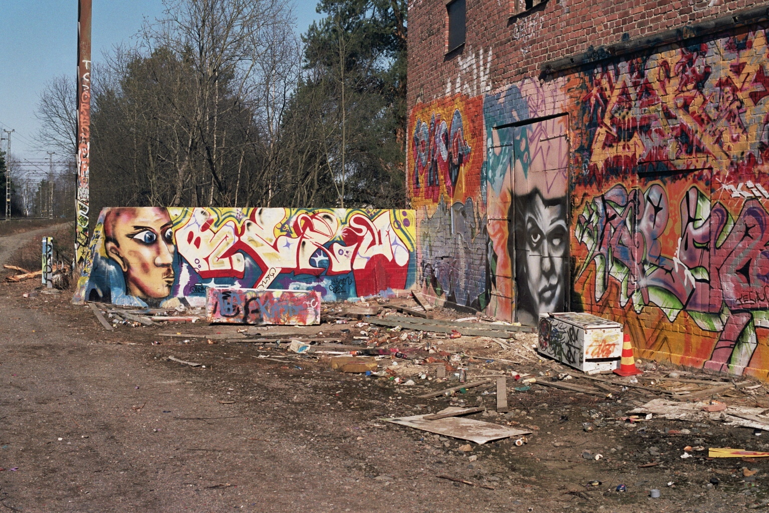 Graffiti in the Santalahti district area of the city of Tampere in Finland. The abandoned building, nowadays bombed with graffiti, was obviously a roof felt factory originally. Since then it has housed at least a masonry-related factory called Kolkos-Muuraus or something.